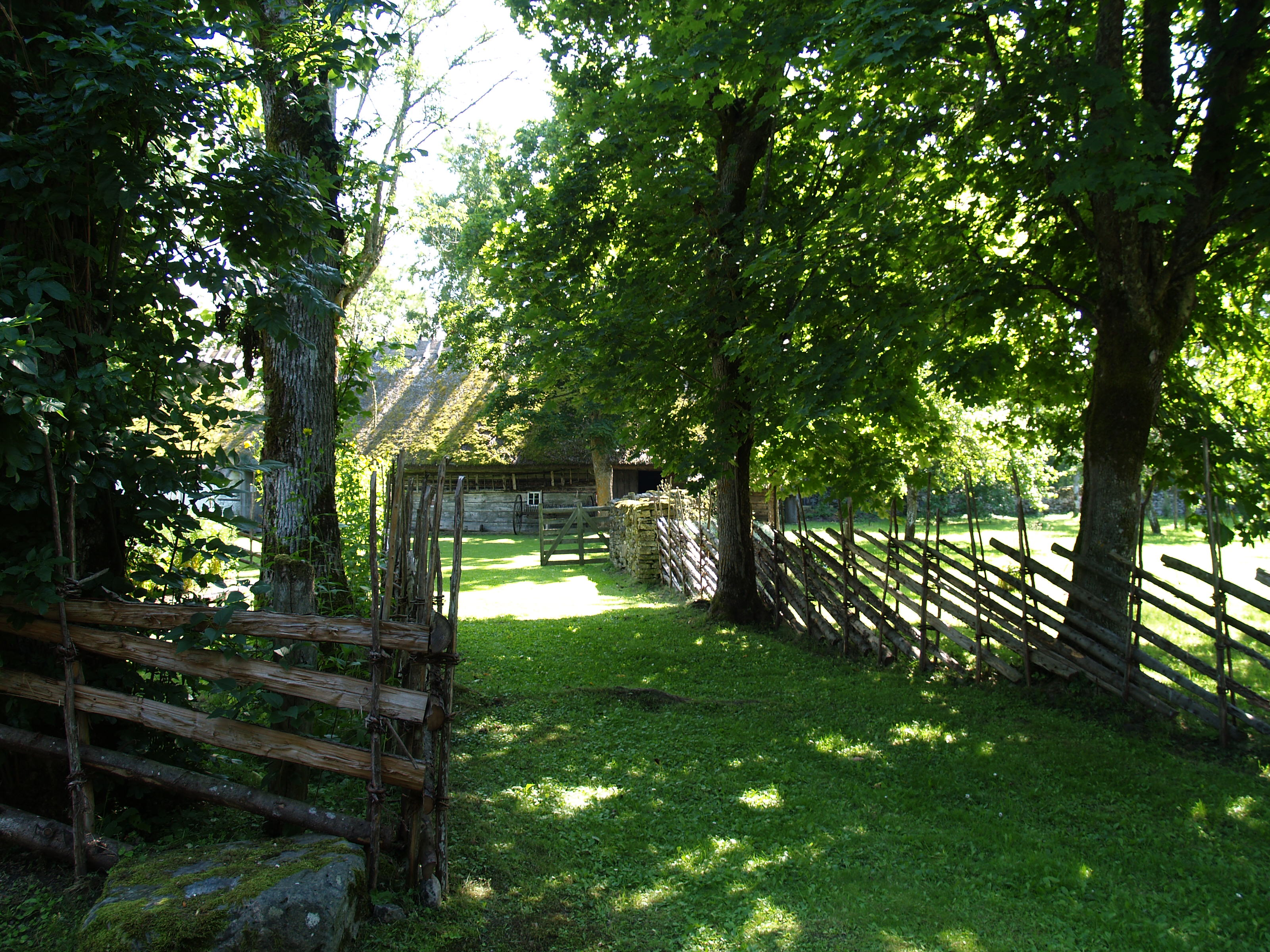 Mihkli Farm Museum